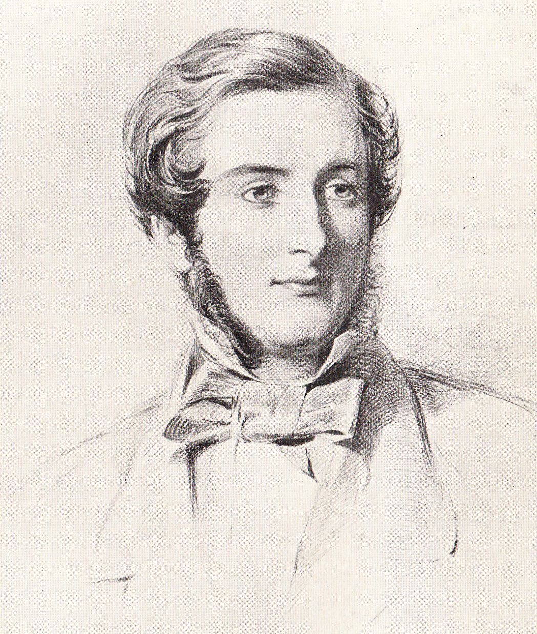 Portrait of Clements Robert Markham at the age of 25